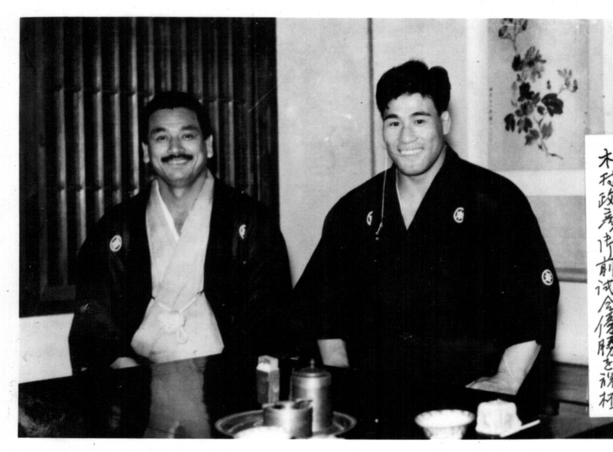 Tatuguma Ushijima Kimura Masahiko